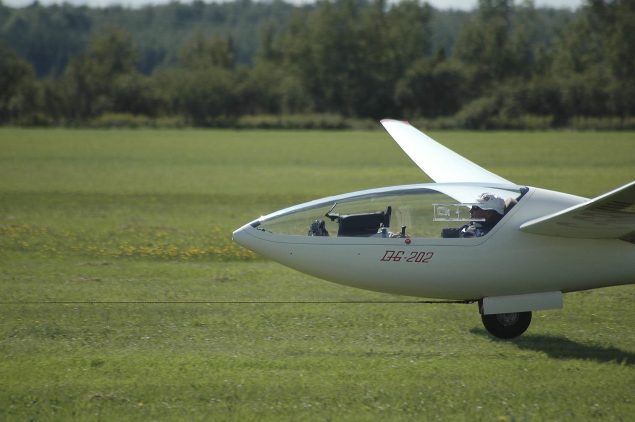 DG 202 at some centimeters of altitude